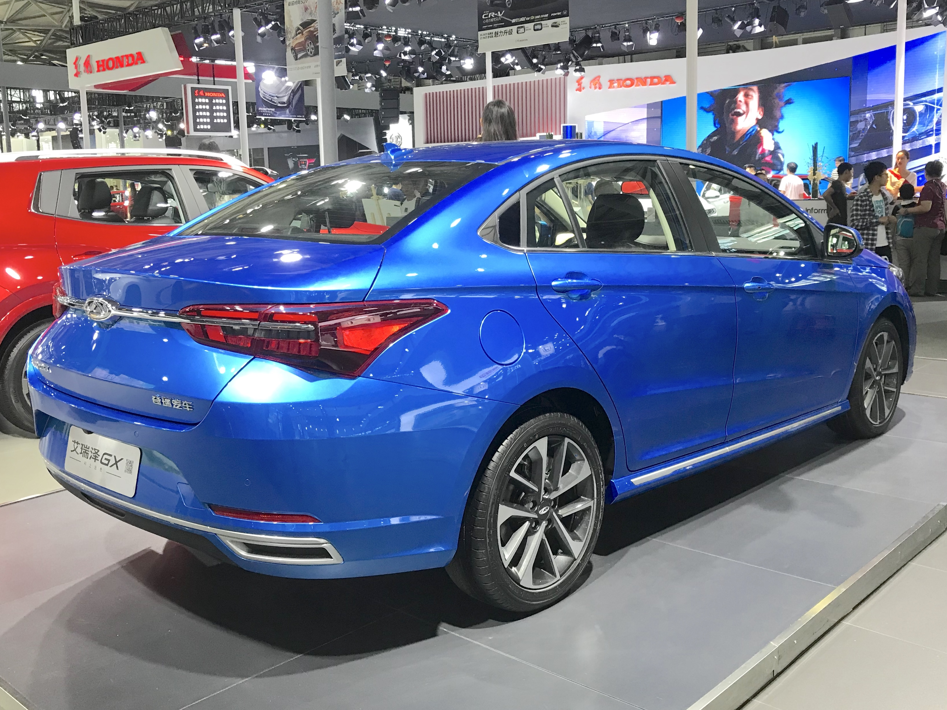 Chery Arrizo GX rear